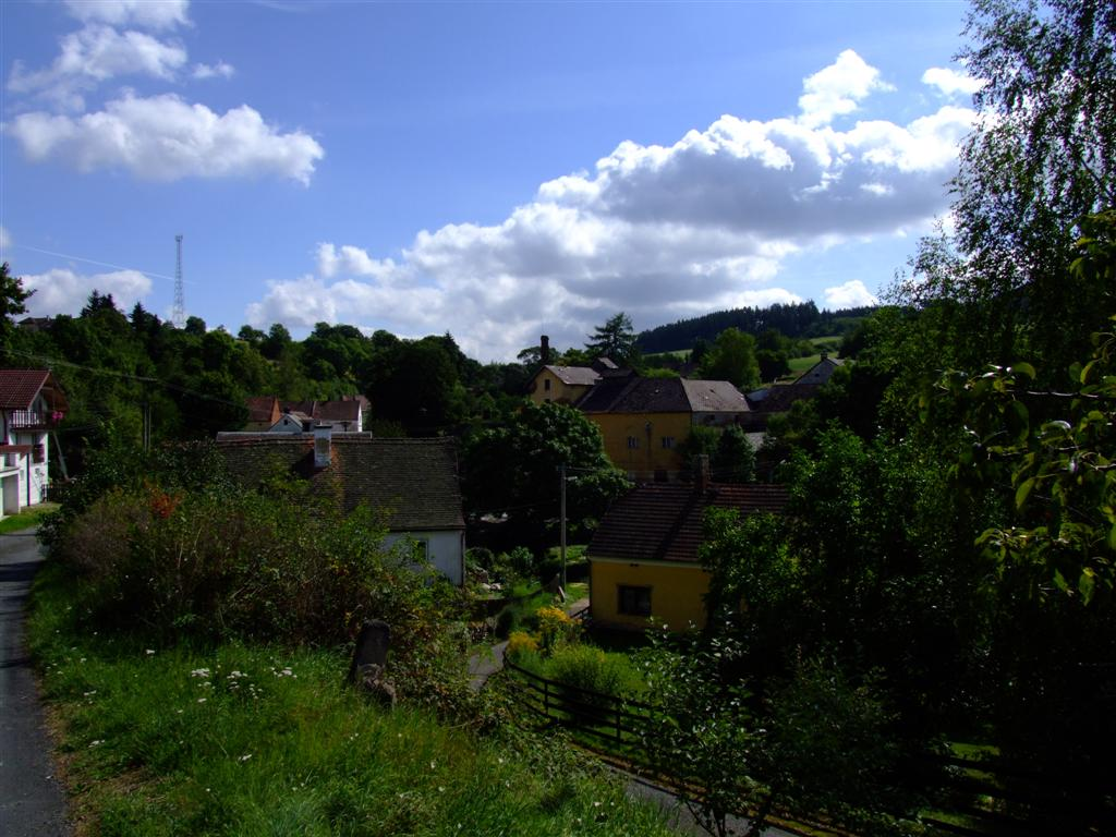 Triebl